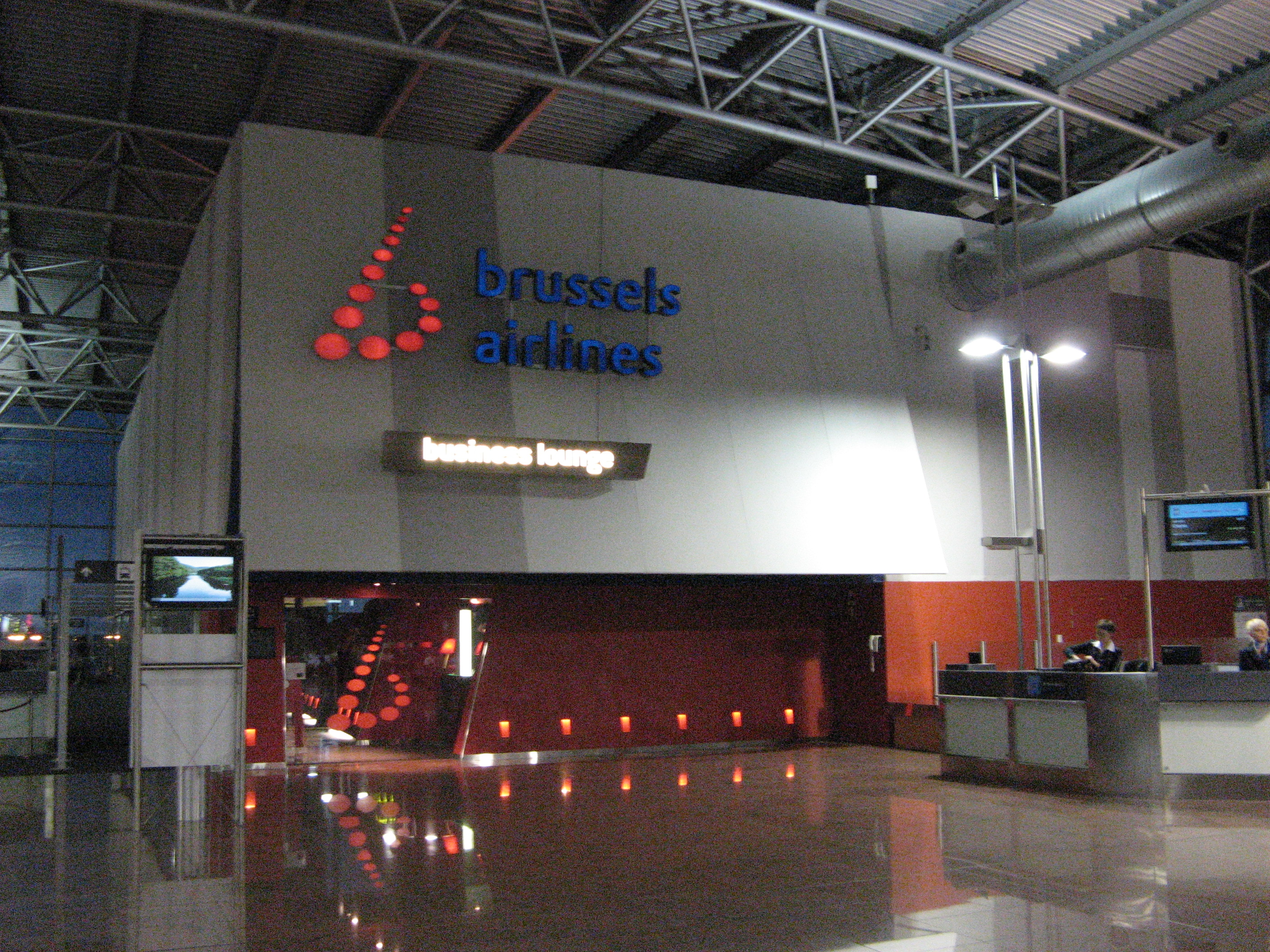 The Brussels Airlines Business Lounge located at the end of terminal A at Brussels Airport